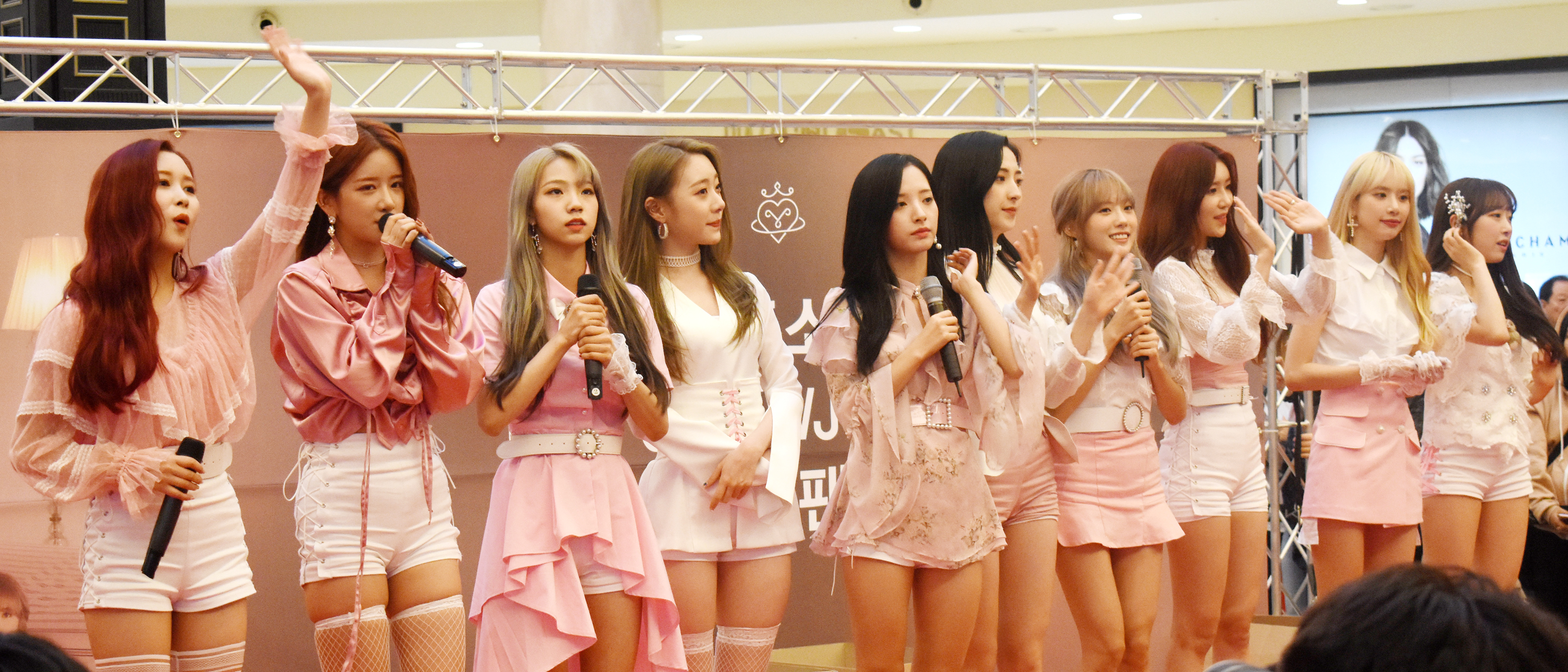 Cosmic Girls at a fansign event at AK Plaza in Bundang on September 26, 2018.